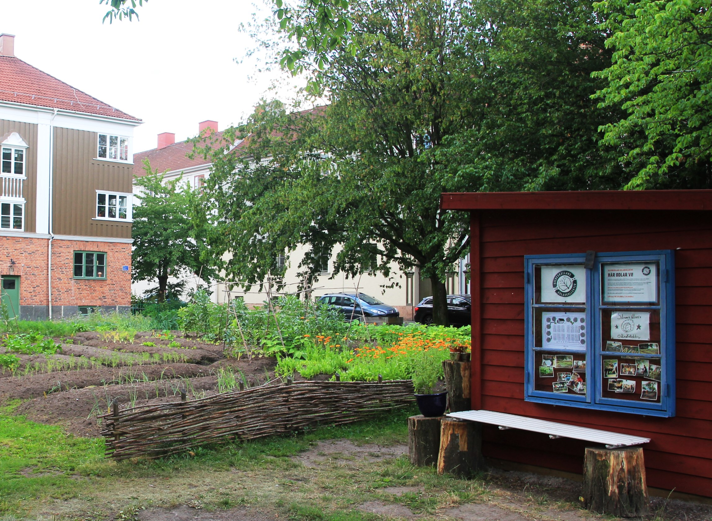 Allotments, gardening in Silverkällan, Majorna, Göteborg